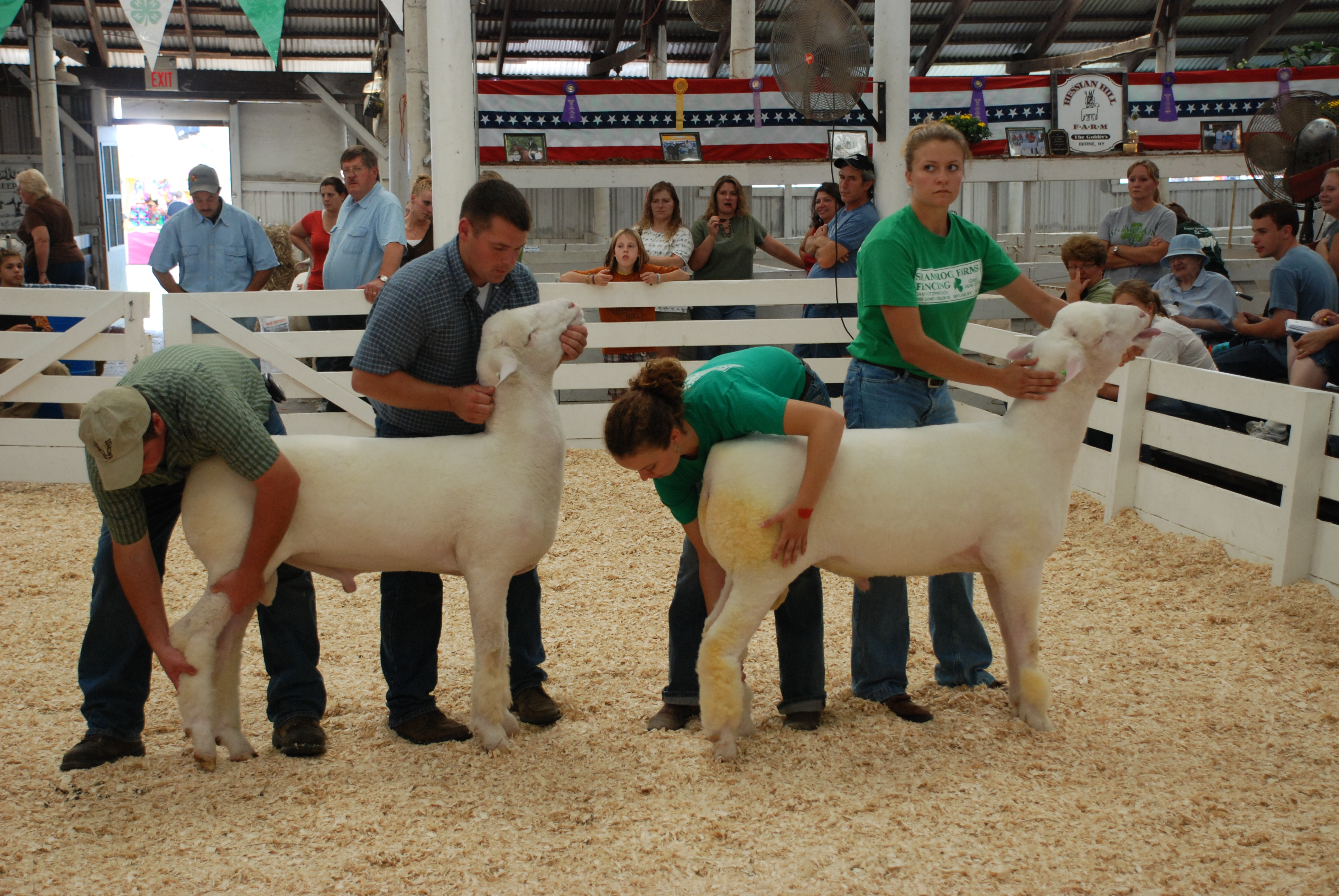 Sheep being judged at the New York State Fair.